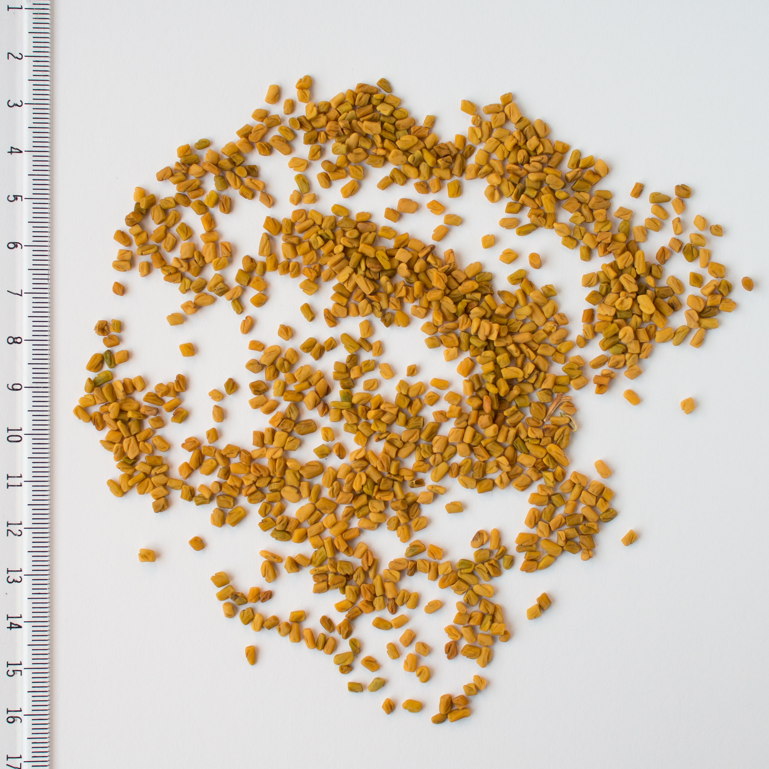 Fenugreek seeds that were store-bought in the Netherlands, next to a metric ruler.